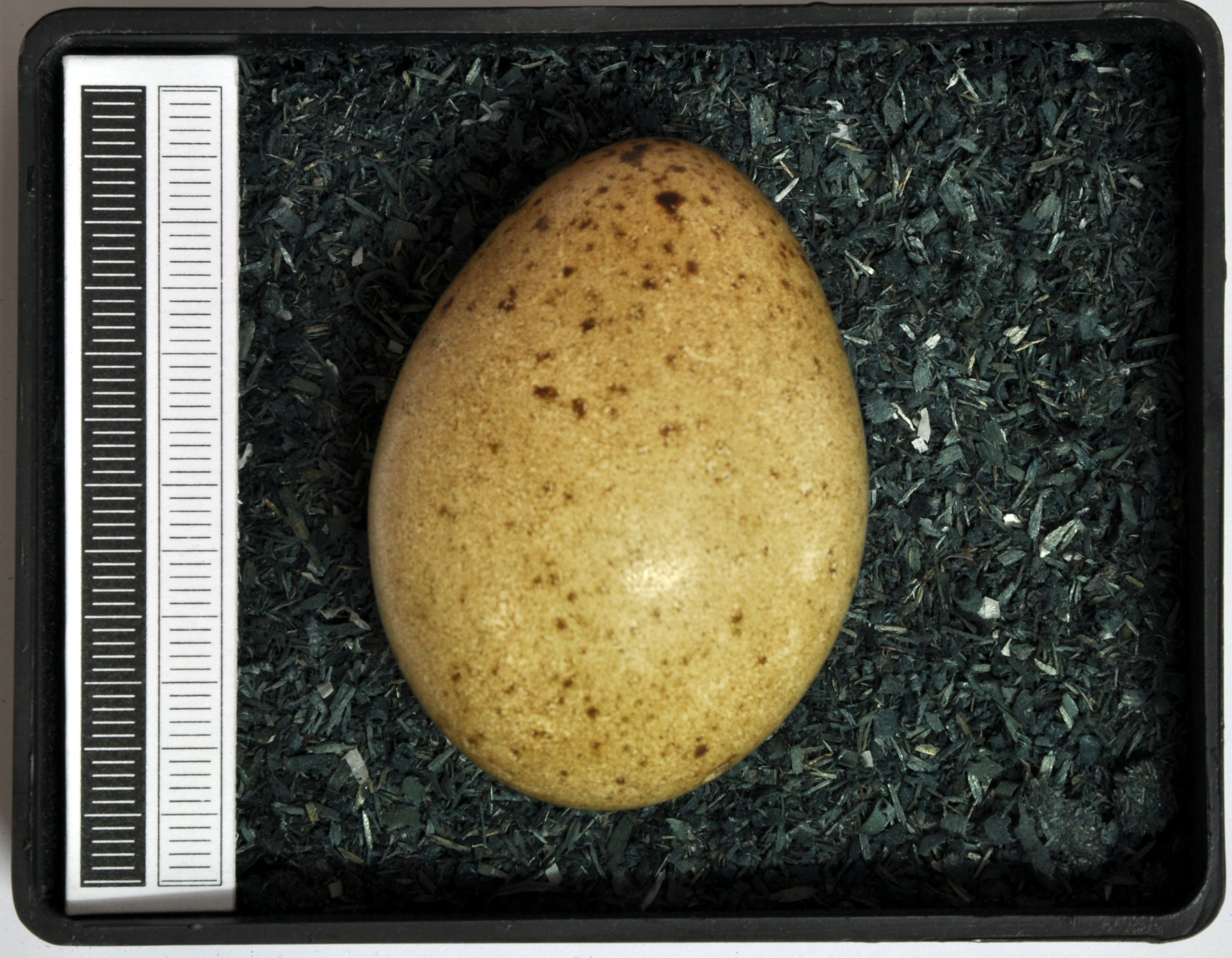 Black grouse Tetrao tetrix , egg, Coll. Museum Wiesbaden, leg. W. Abelmann